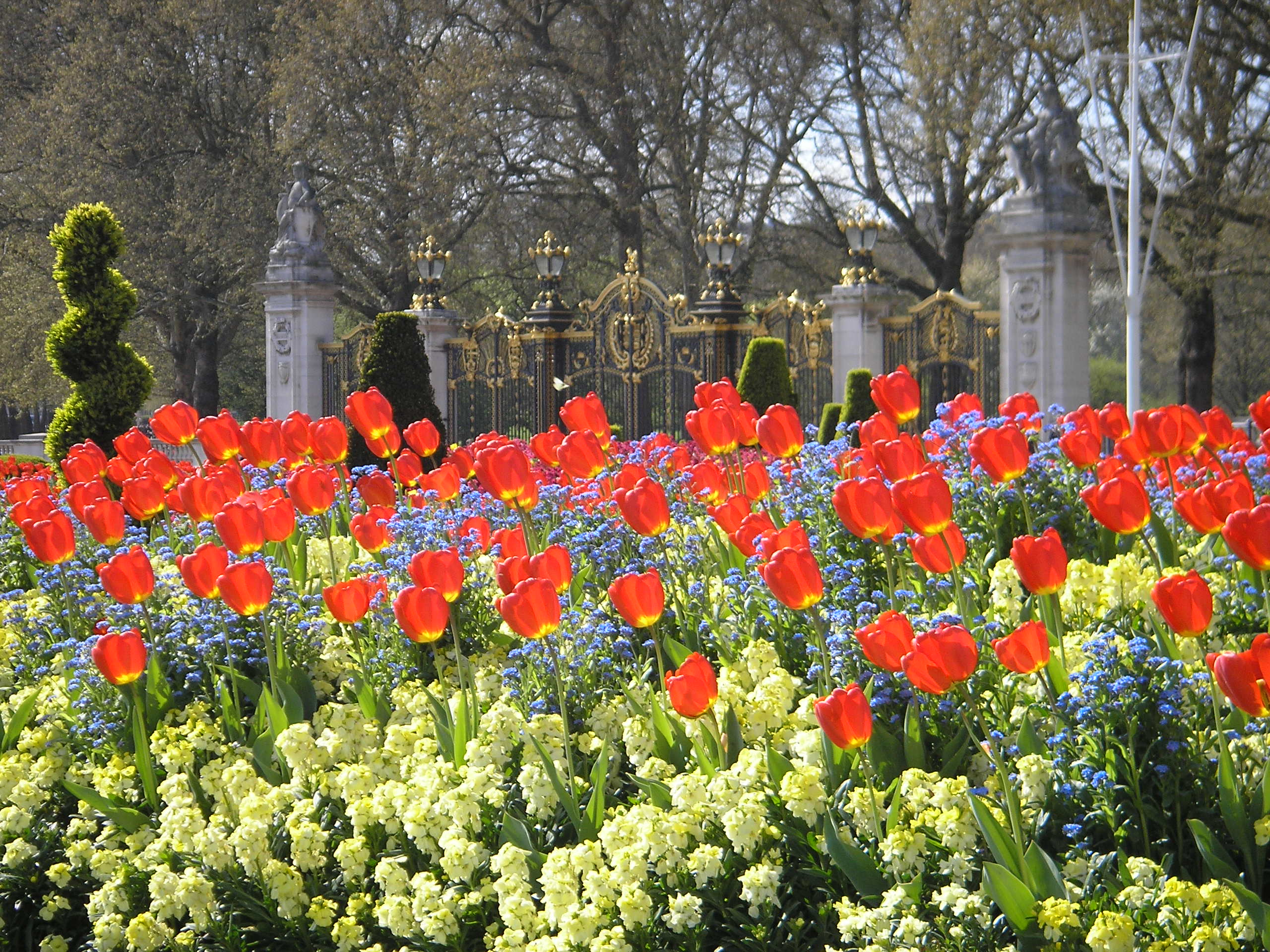 Flower beds at The Mall in London.